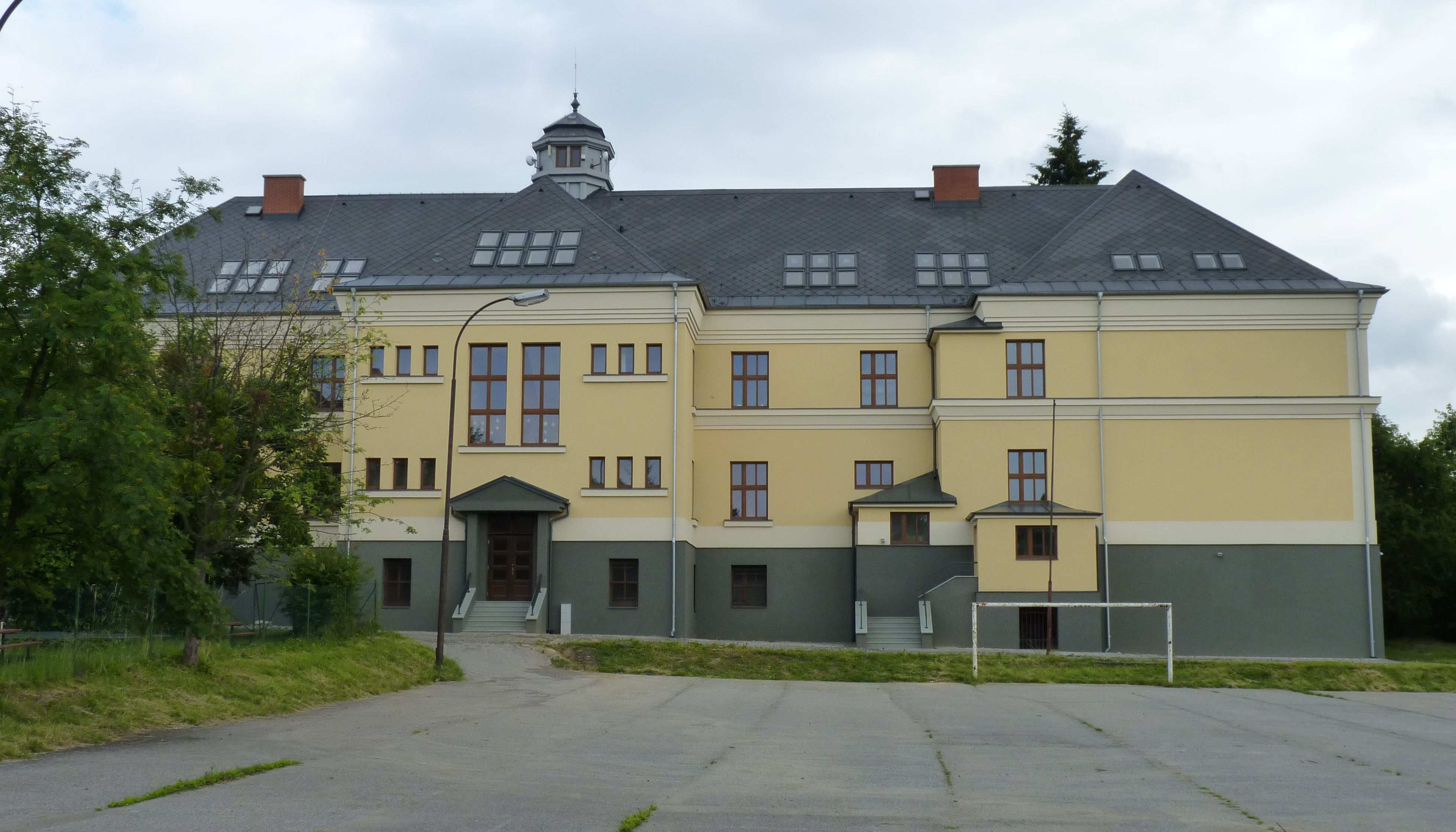 Horní Suchá (Sucha Górna). Karviná District, Moravian-Silesian Region, Czech Republic